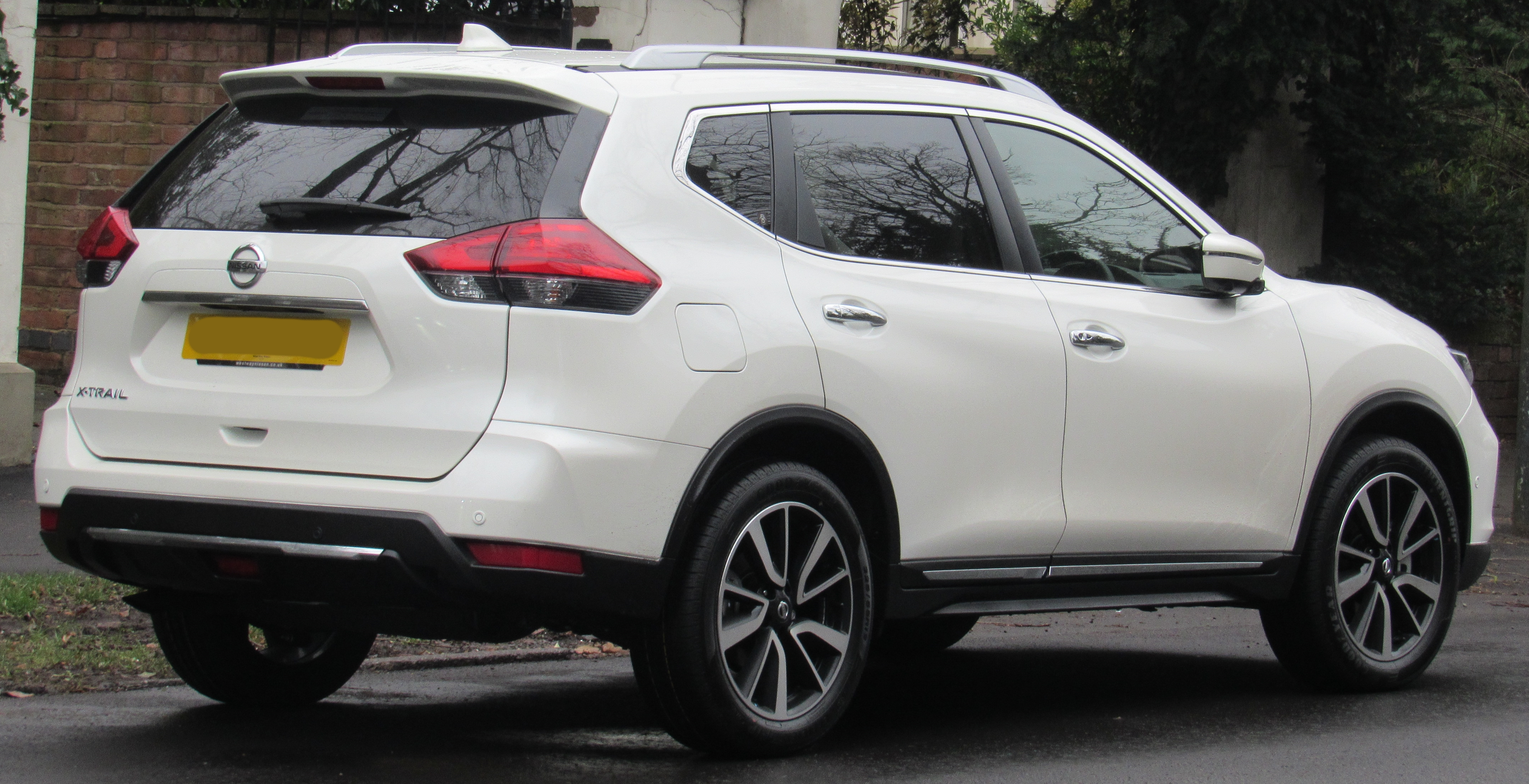 2017 Nissan X-Trail Tekna Dig-T facelift 1.6 Rear Taken in Leamington Spa